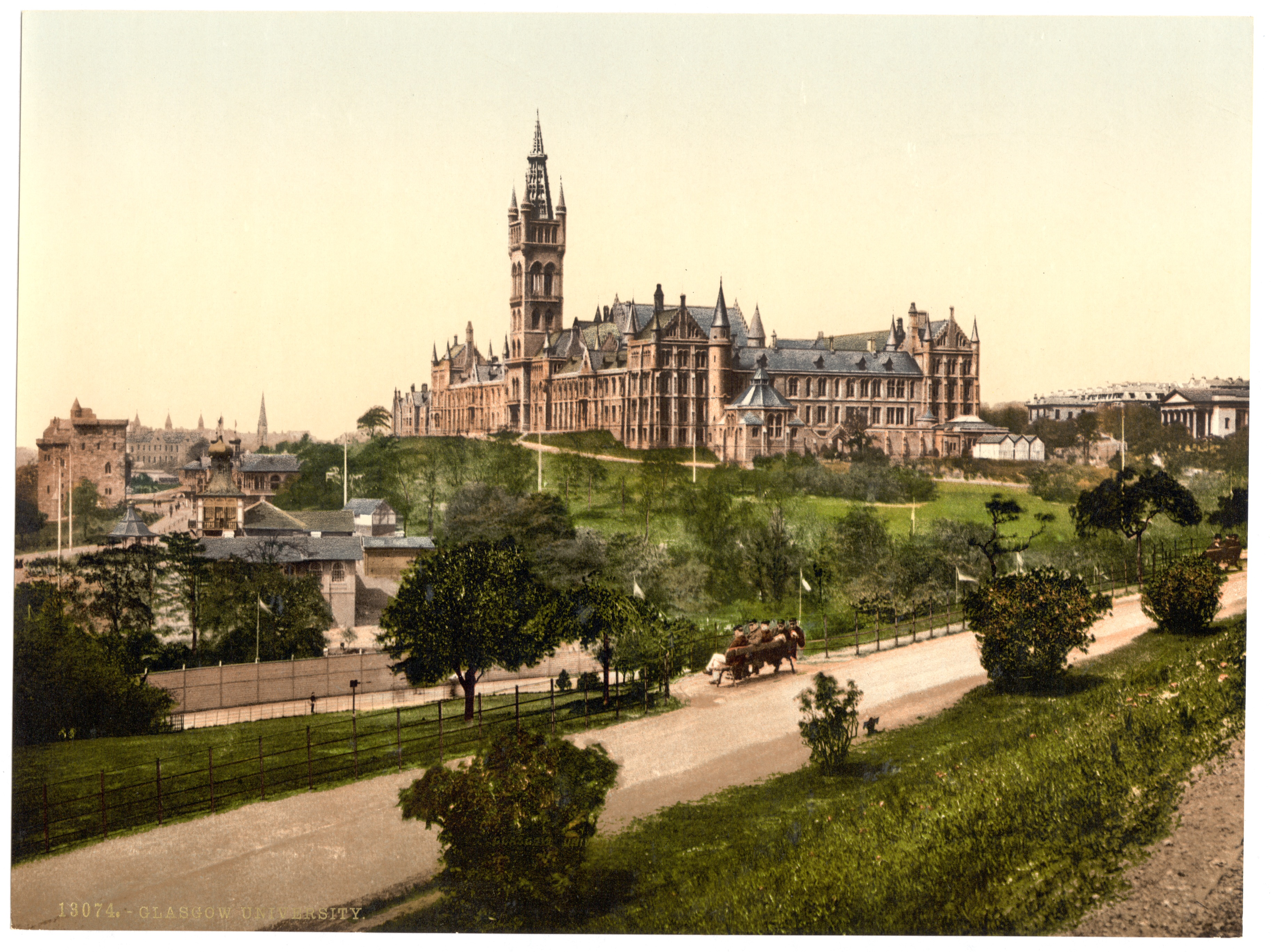 More information about the Photochrom Print Collection is available at Title listed in the Detroit Publishing Co., catalogue J-foreign section. Detroit, Mich. : Detroit Photographic Company, 1905: "University, Glasgow, Scotland."; Print no. "13074".; Forms part of: Views of landscape and architecture in Scotland in the Photochrom print collection.; Title from item.